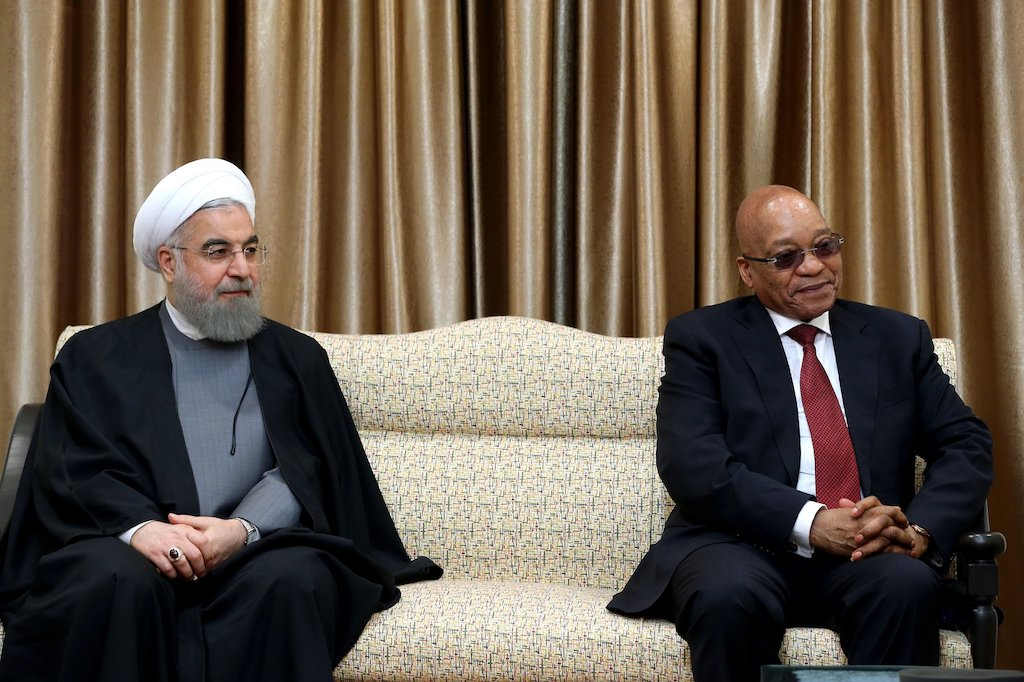 Jacob Zuma, the President of South Africa and his entourage met with Ali Khamenei, the Supreme Leader of Iran, in his house.